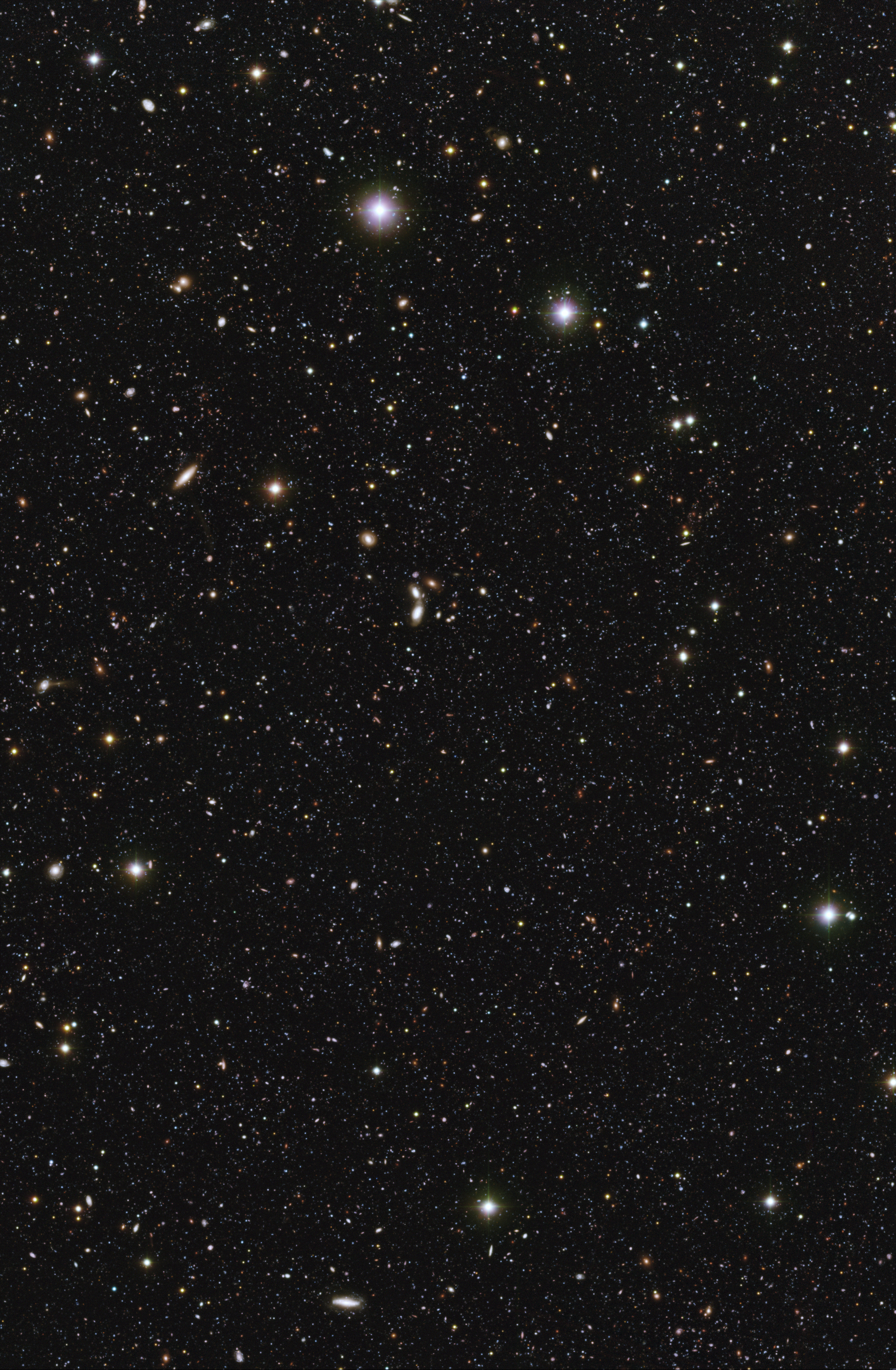 The Chandra Deep Field South, observed in the U-, B-, and R-bands with ESO's VIMOS and WFI instruments. The U-band VIMOS observations were made over a period of 40 hours and constitute the deepest image ever taken from the ground in the U-band. The image covers a region of 14.1 x 21.6 arcmin on the sky and shows galaxies that are 1 billion times fainter than can be seen by the unaided eye. The VIMOS R-band image was assembled by the ESO/GOODS team from archival data, while the WFI B-band image was produced by the GABODS team.